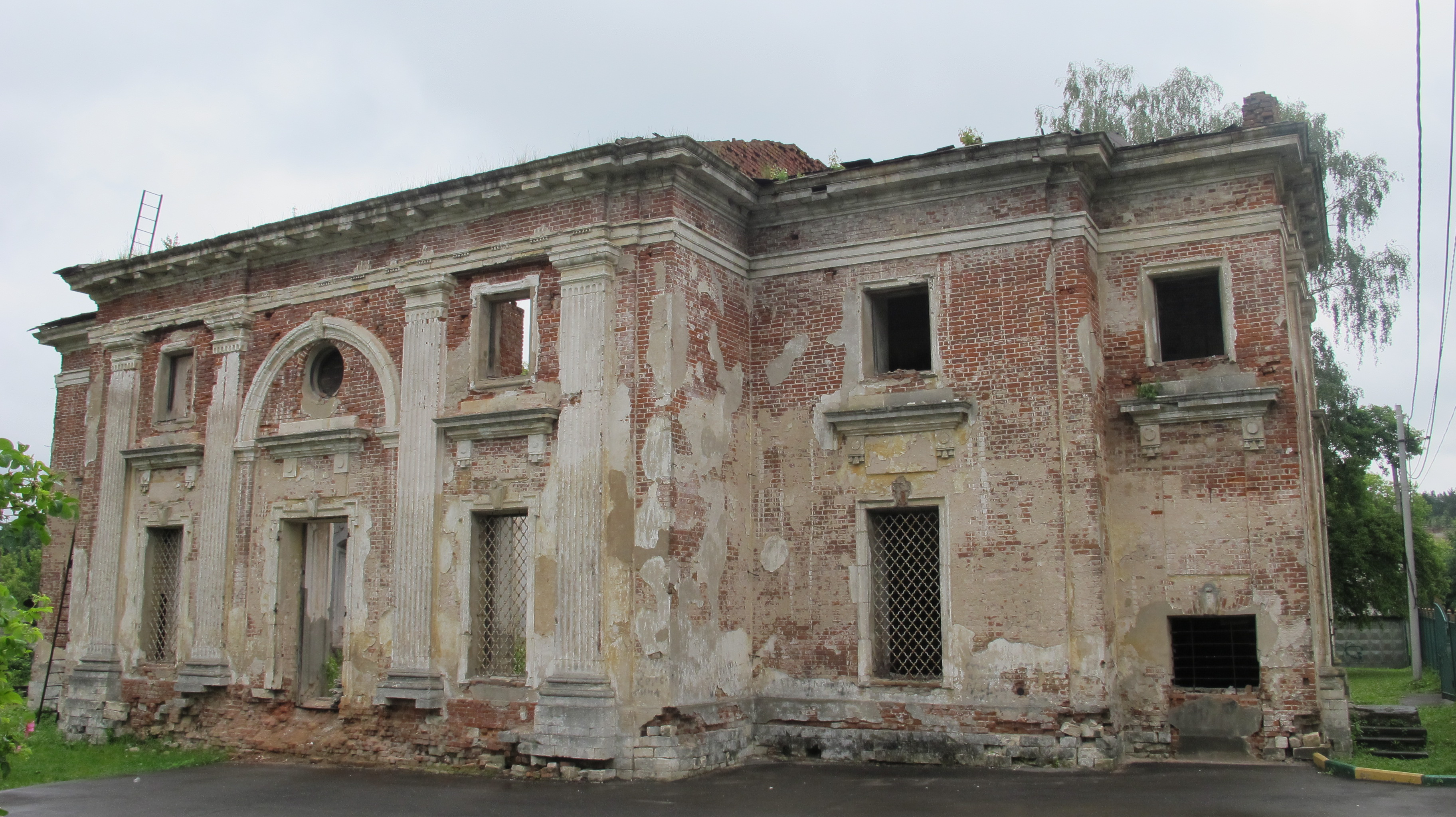 Wikiexpedition to Kaluga 2016-06-11.